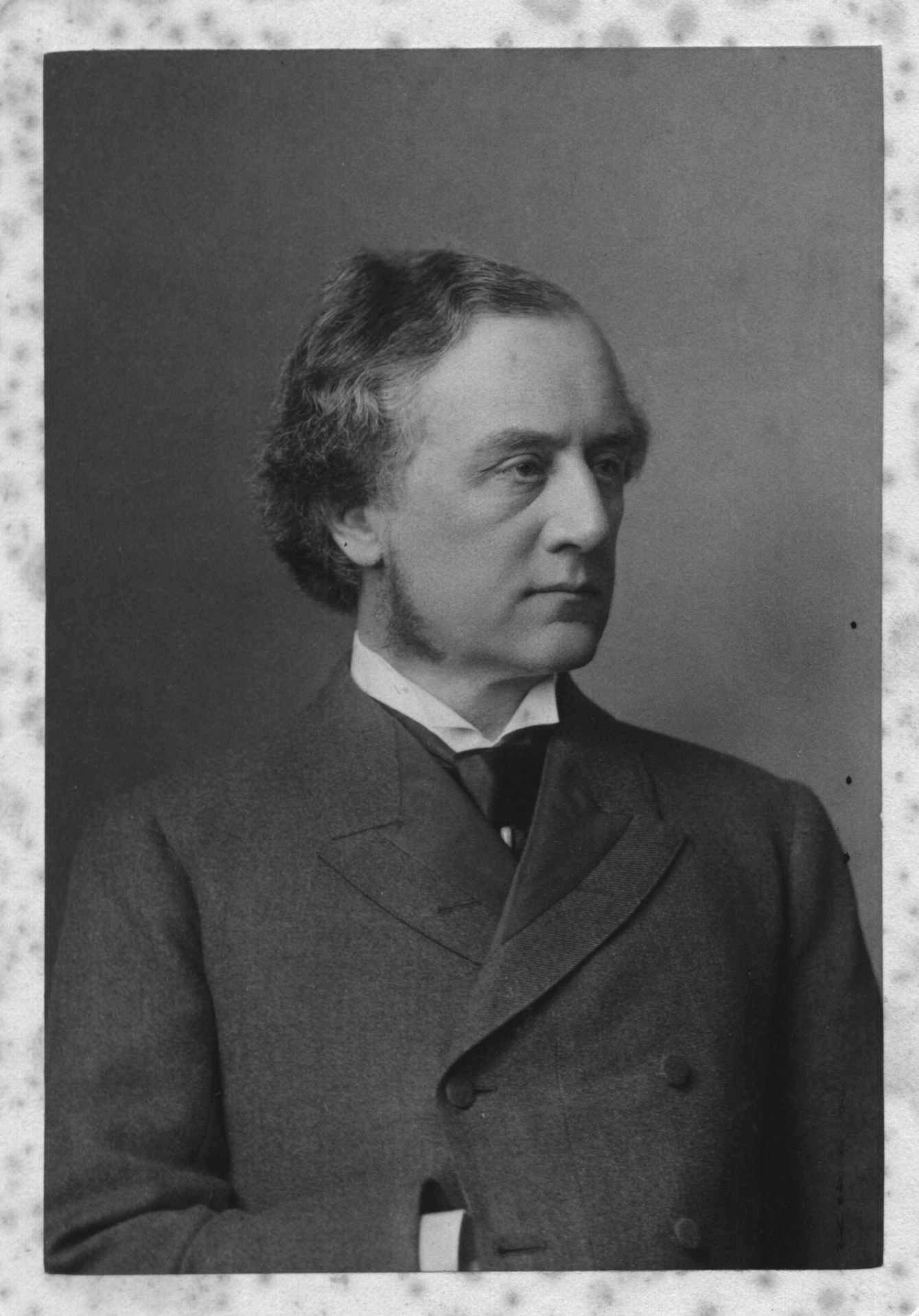 Rt.Hon. Joseph Powell Williams PC,MP,JP - Photographic portrait from last decade of 19th century.